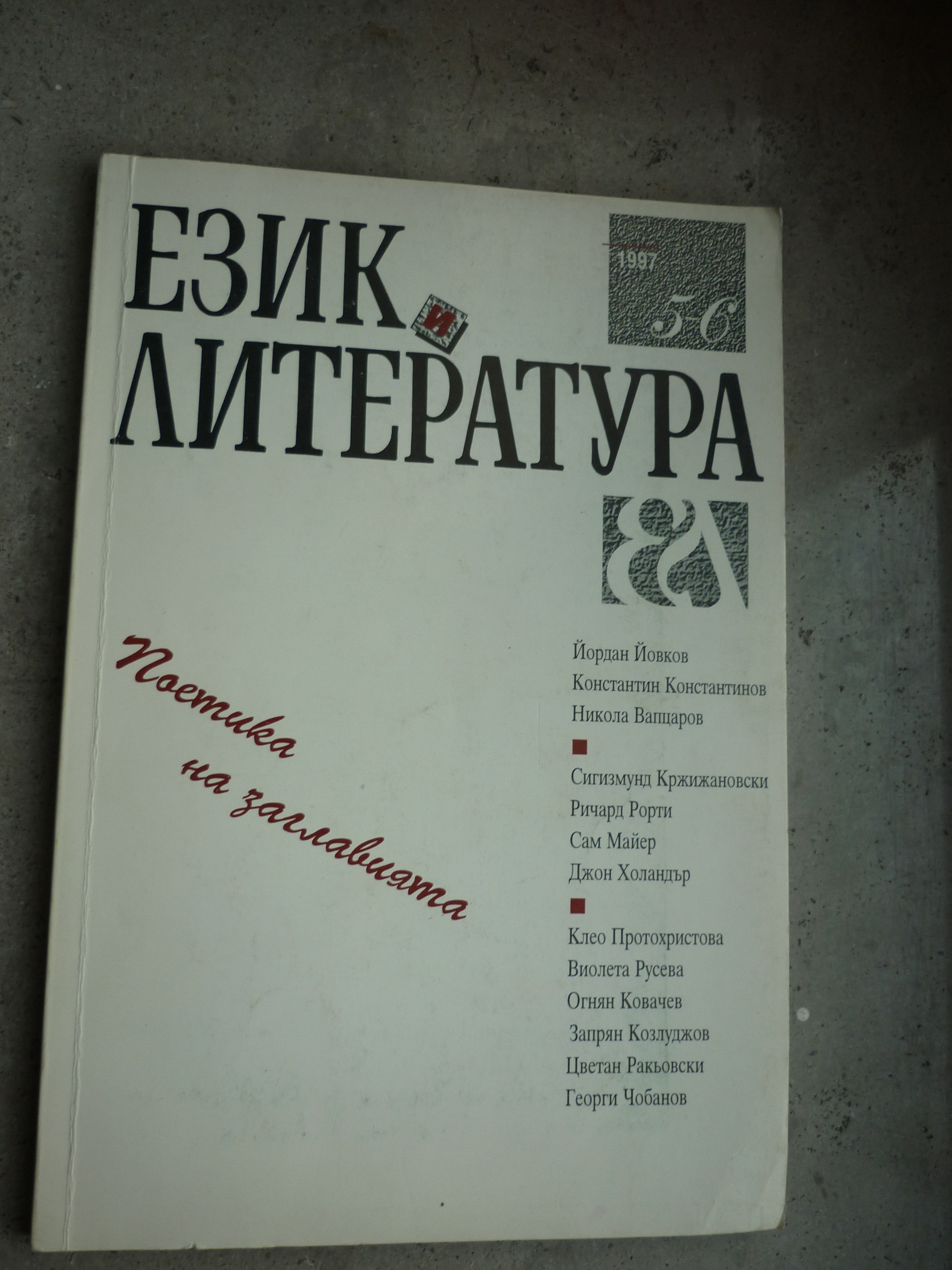 Cover of „Ezik i literatura“ (Bulgarian Language) journal, 1997, No5-6.